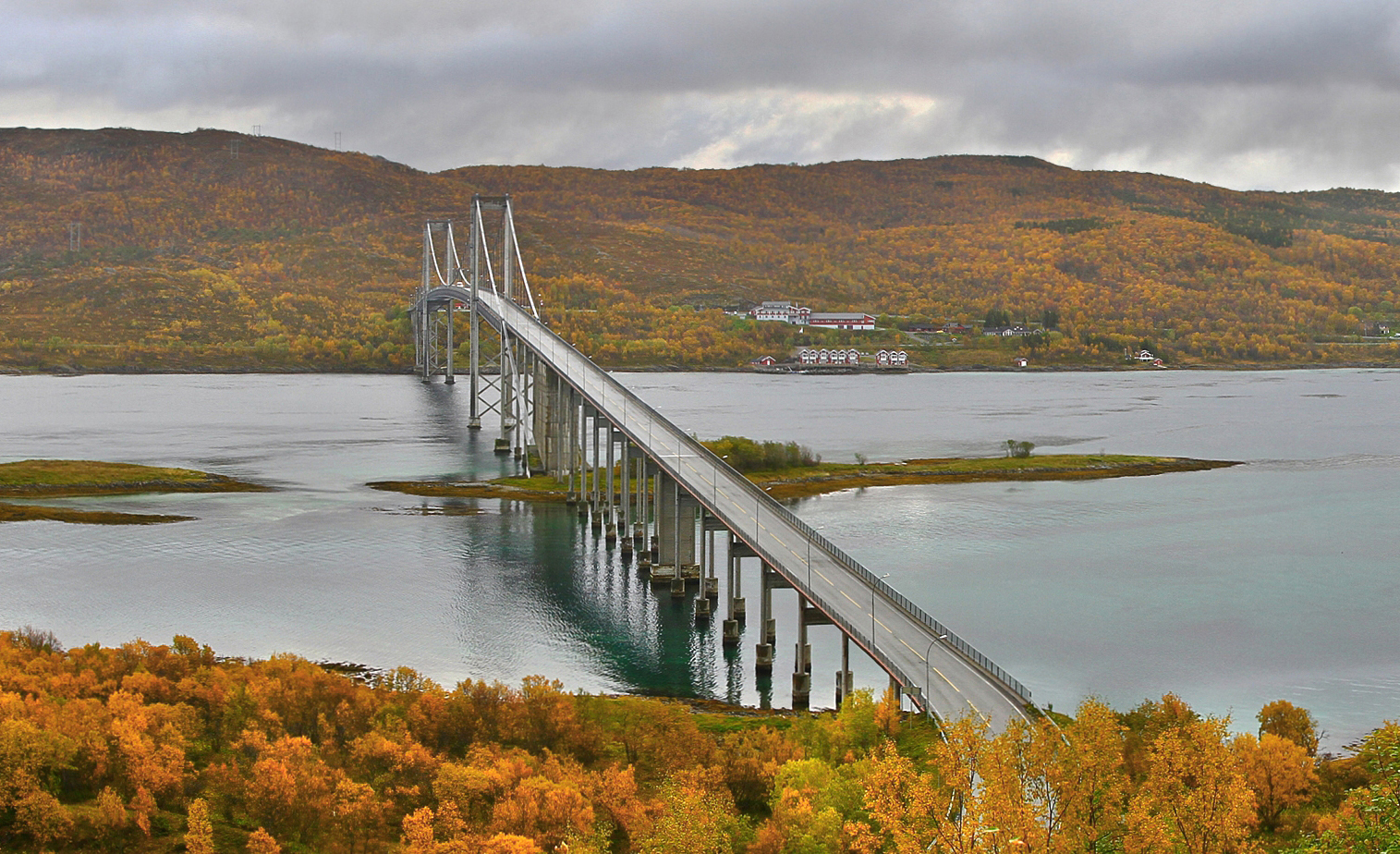 Tjeldsund Bridge over Tjeldsundet as seen from the Hinnøya side in 2010 September.